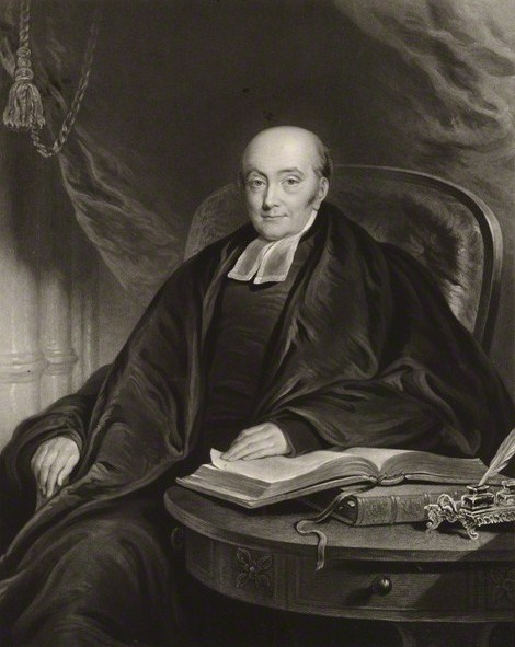 Portrait of John James Watson (1767–1839), English clergyman.